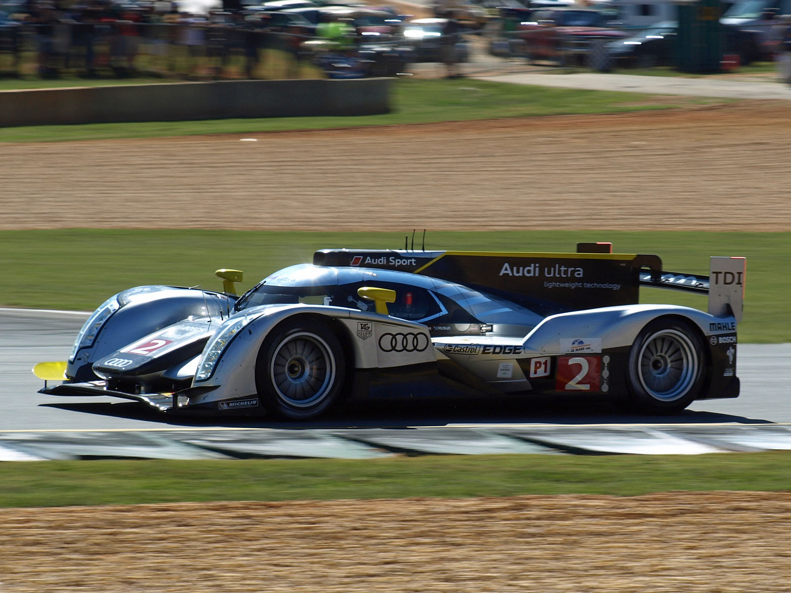 Tom Kristensen driving the Audi Sport Team Joest Audi R18 TDI in the 2011 Petit Le Mans at Road Atlanta.